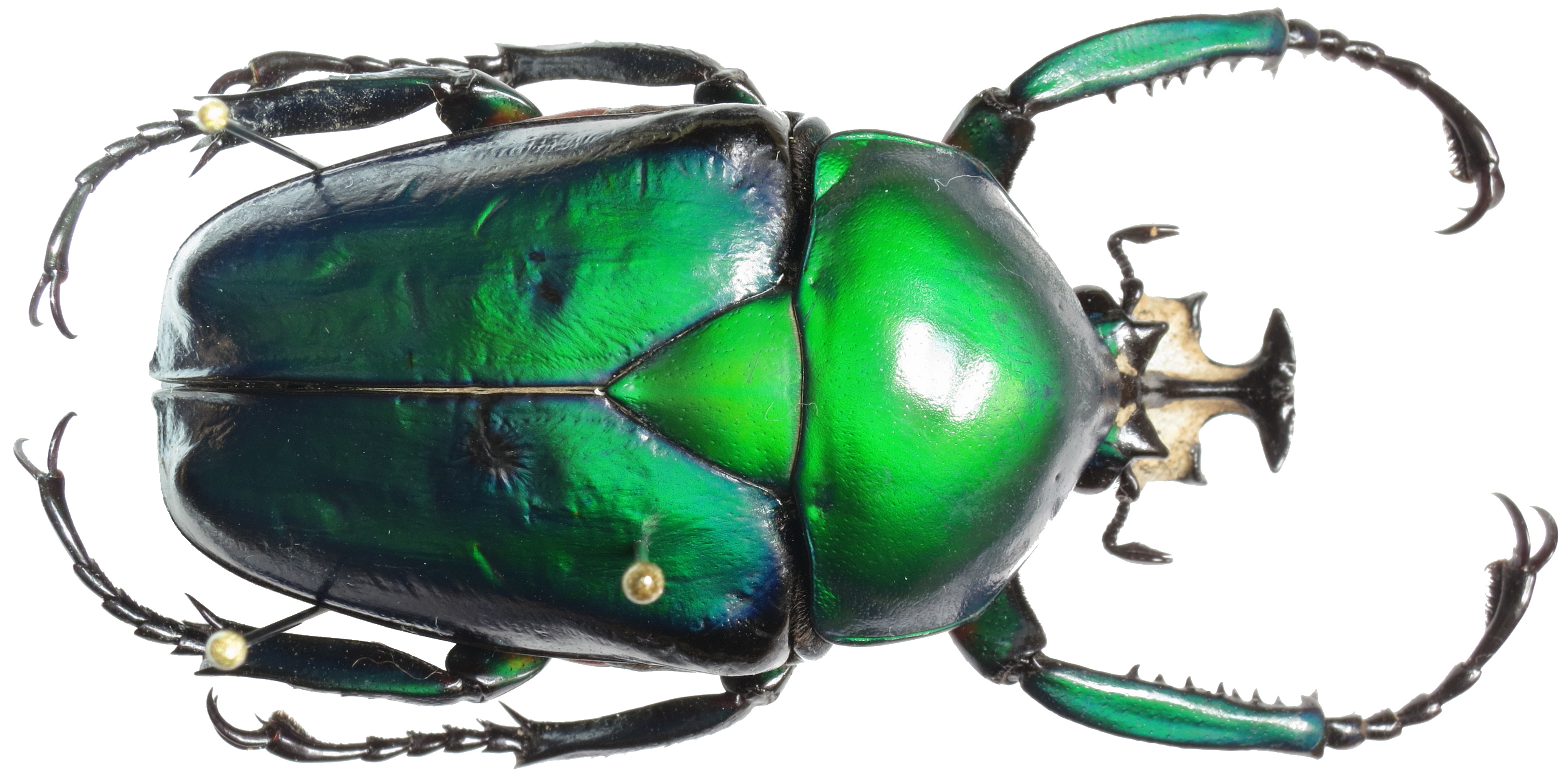 Dicronorrhina oberthuri male from Muheza, Tansania